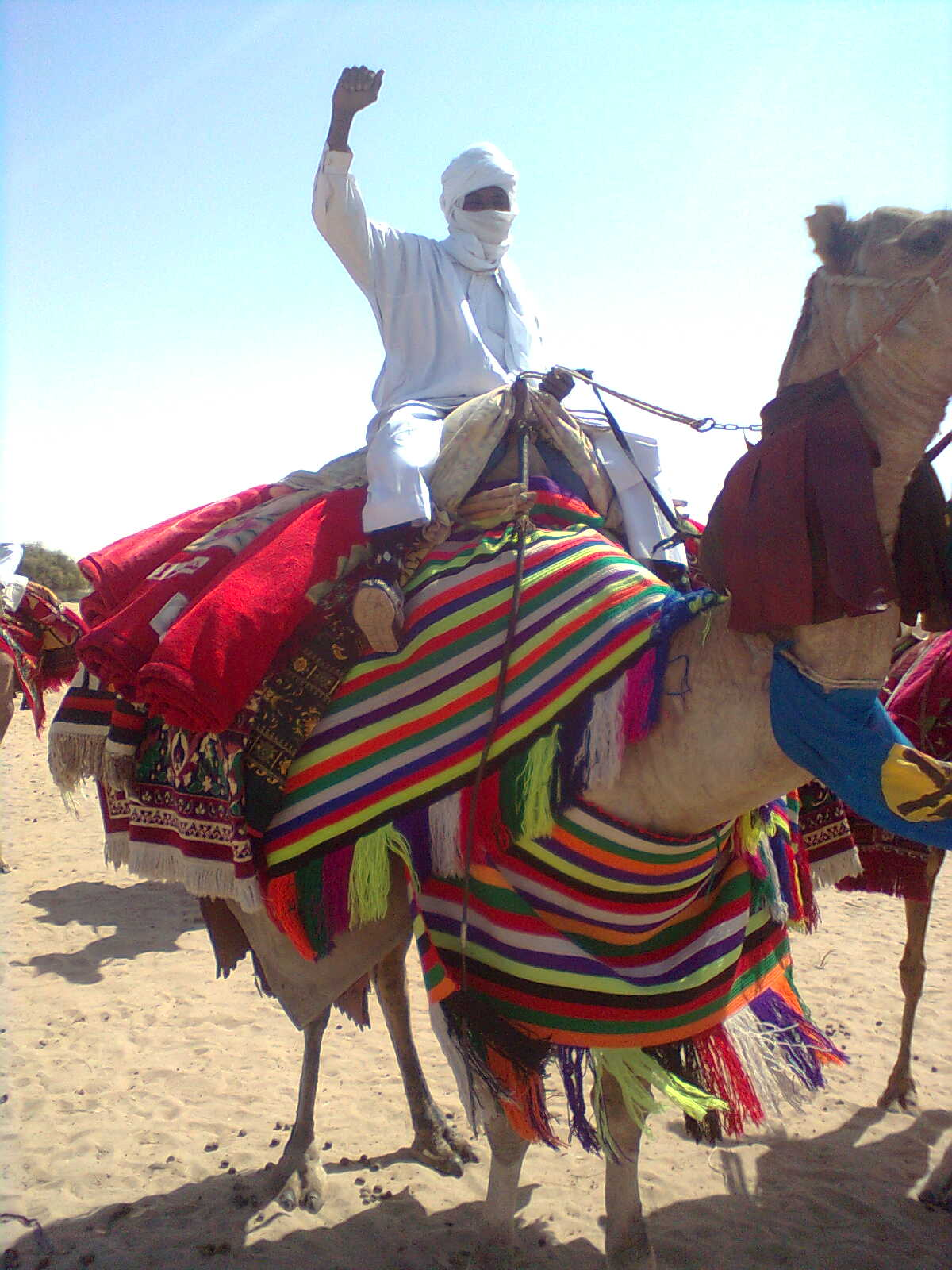 This is an image of Cultural Fashion or Adornment from Chad